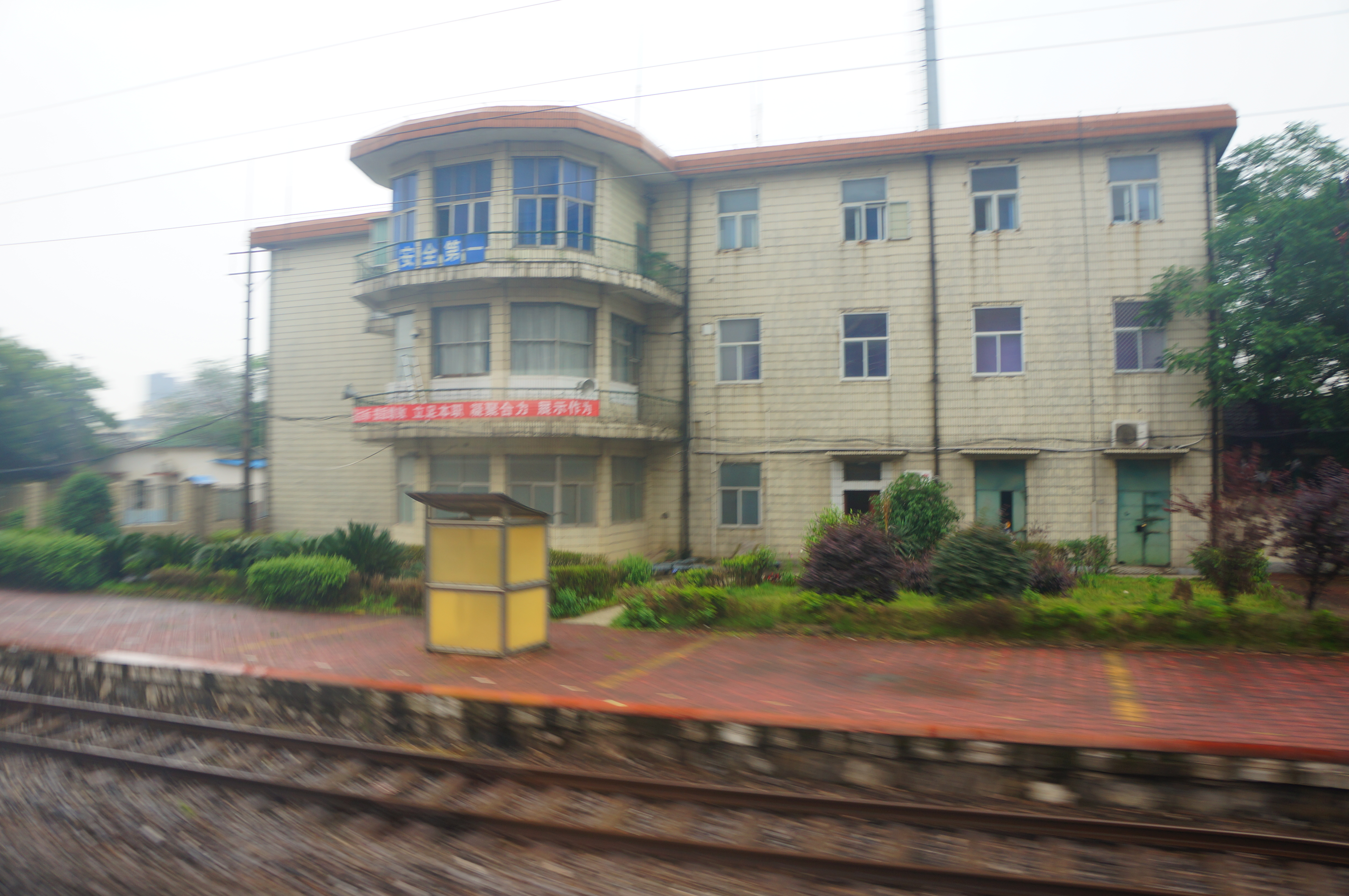 201705 Station building of Nanchangnan Station